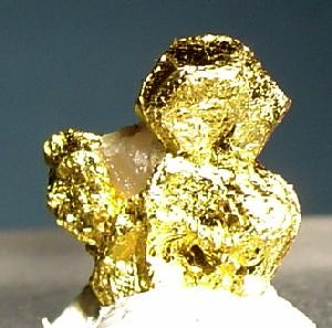 Gold Locality: Meekatharra, Western Australia, Australia (Locality at ) Size: 1.0 x 1.0 x 0.5 cm. A super-sharp, golden bright, 5 mm, cuboctahedral gold crystal aesthetically perched on gold and quartz from Australia. SELDOM do you see such a well-developed gold cuboct from anywhere! Ex. Bill Pinch and Bob Byers Collections.